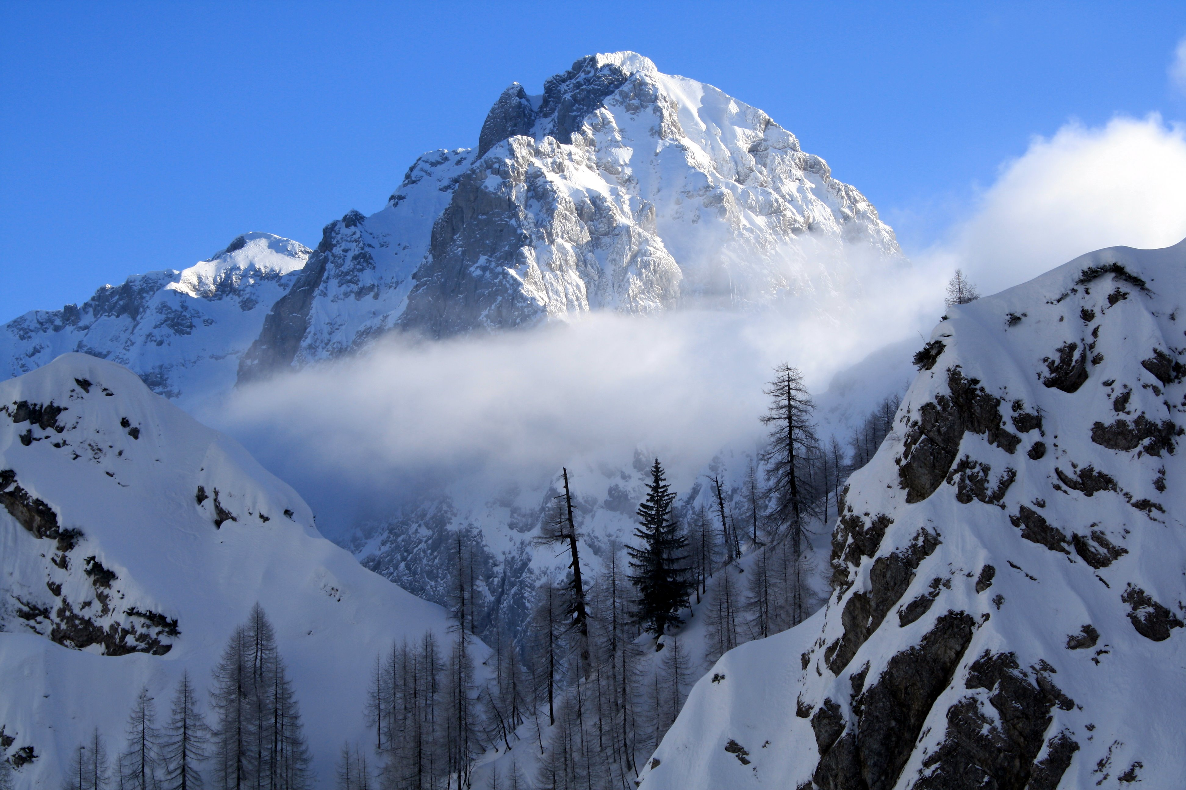 Planjava Northwest, seen from Okrešelj